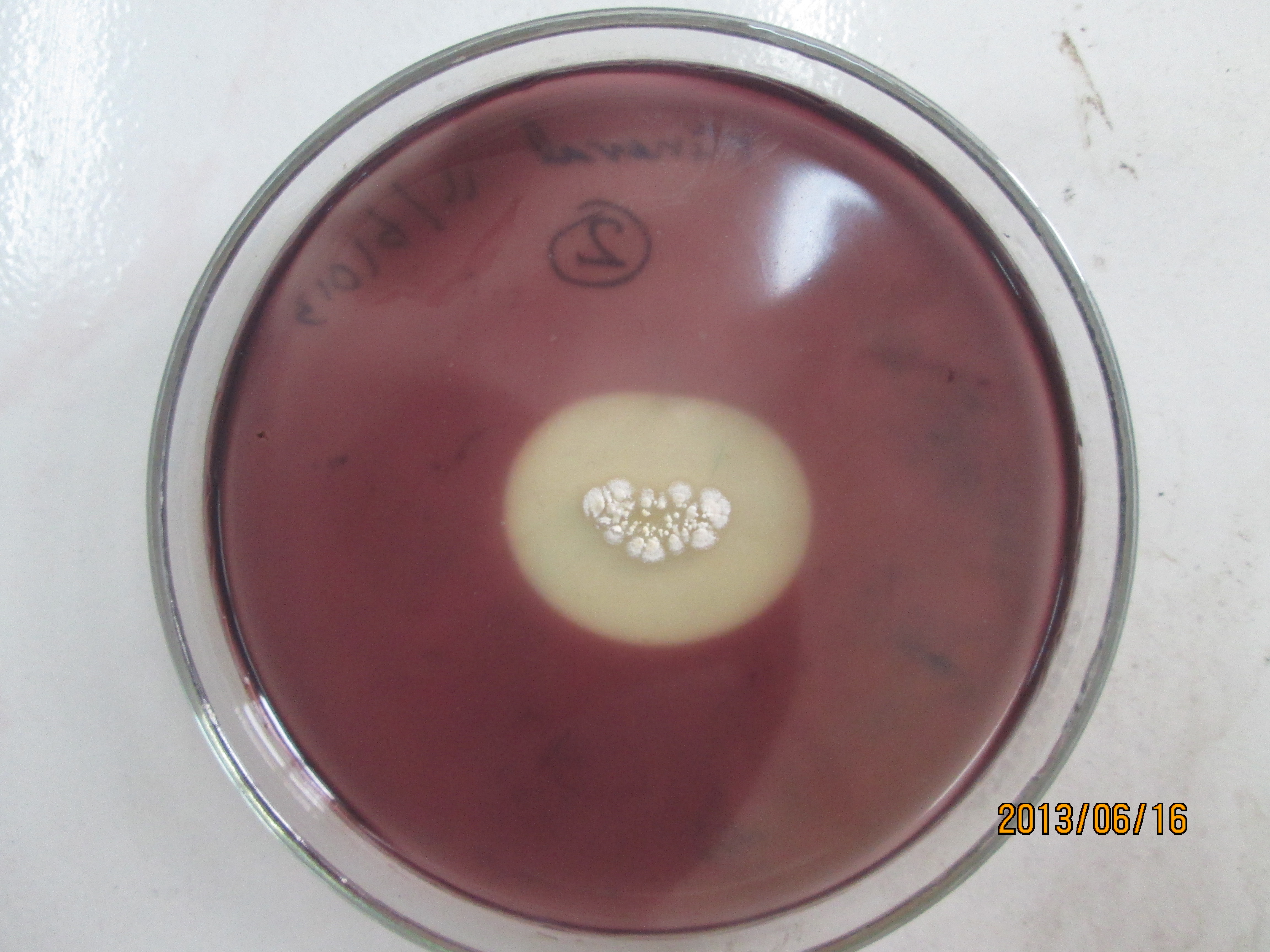 Cellulose degradation by certain microorganism